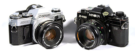 Classic 35mm SLRs By ExNihilo Portfolio